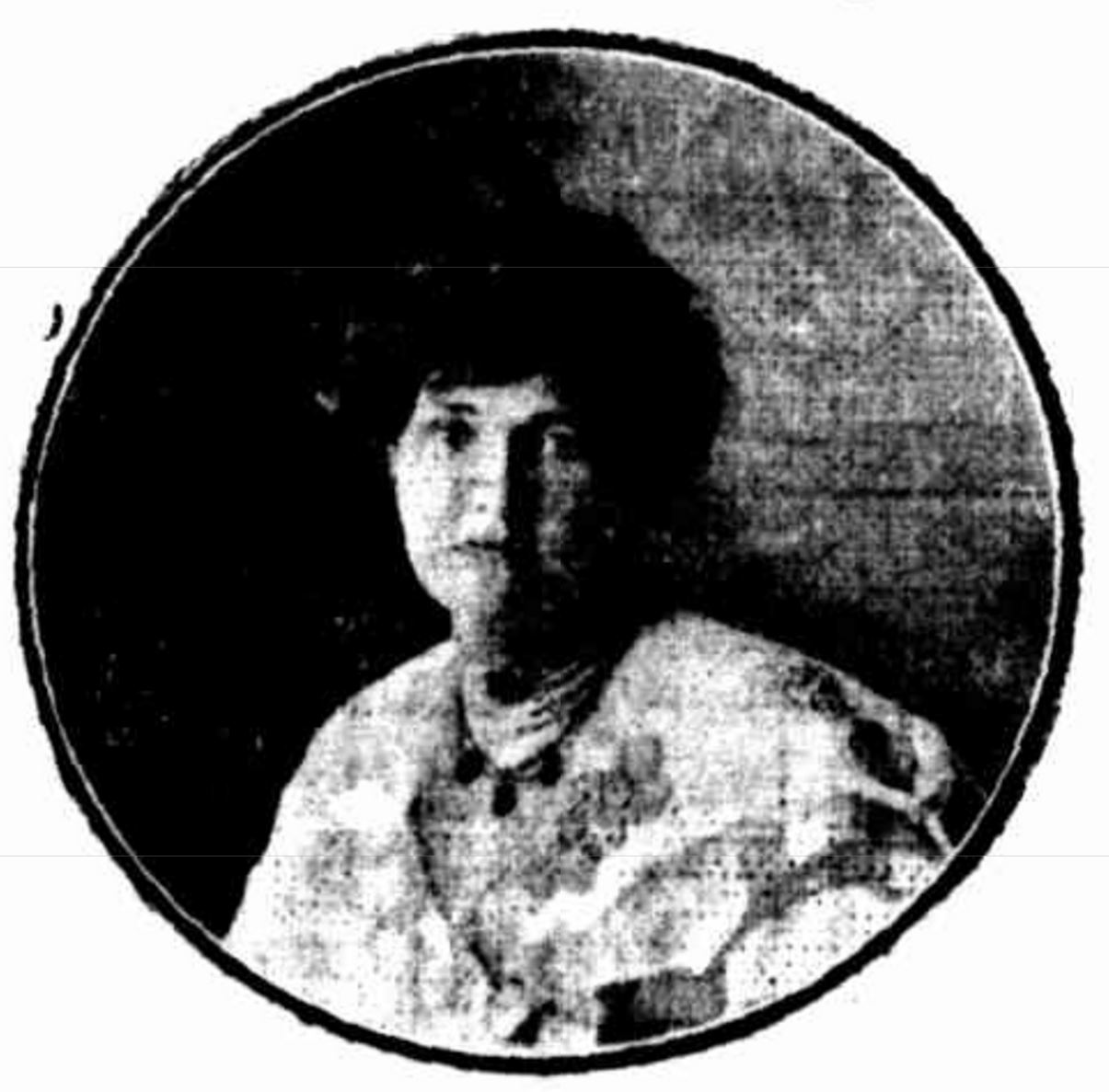 Ada Augusta Holman (nee Kidgell), 1904